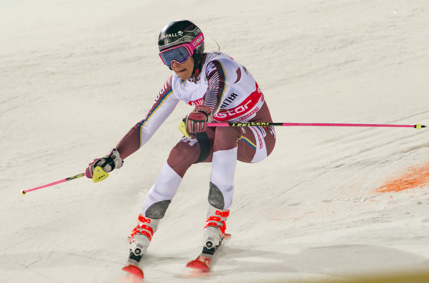 Frida Hansdotter in action Photo by Roland Osbeck